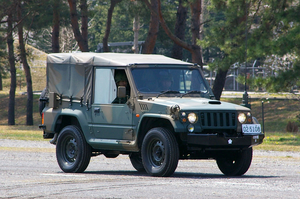 Taken by Los688,8-Apr-2007,JGSDF Camp-Utsunomiya.JGSDF Type73 (new) Kogata Truck,12th Br.6th SSM regiment.PD-self. ja:2007年4月8日、投稿者撮影。陸上自衛隊宇都宮駐屯地記念行事。新73式小型トラック。第6地対艦ミサイル連隊